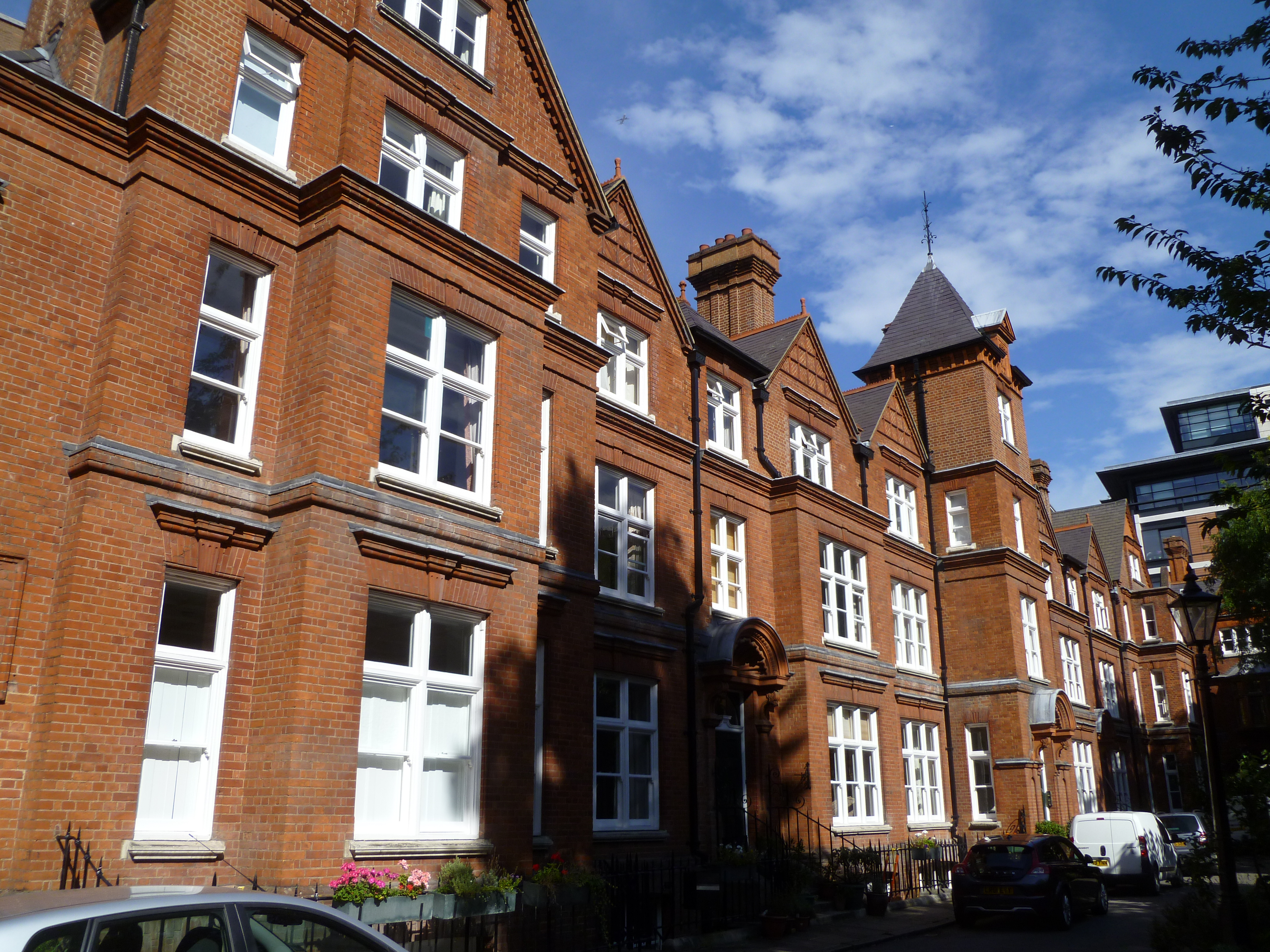 Minor Canonries, Amen Court, City of London, by Ewan Christian, 1878-80.